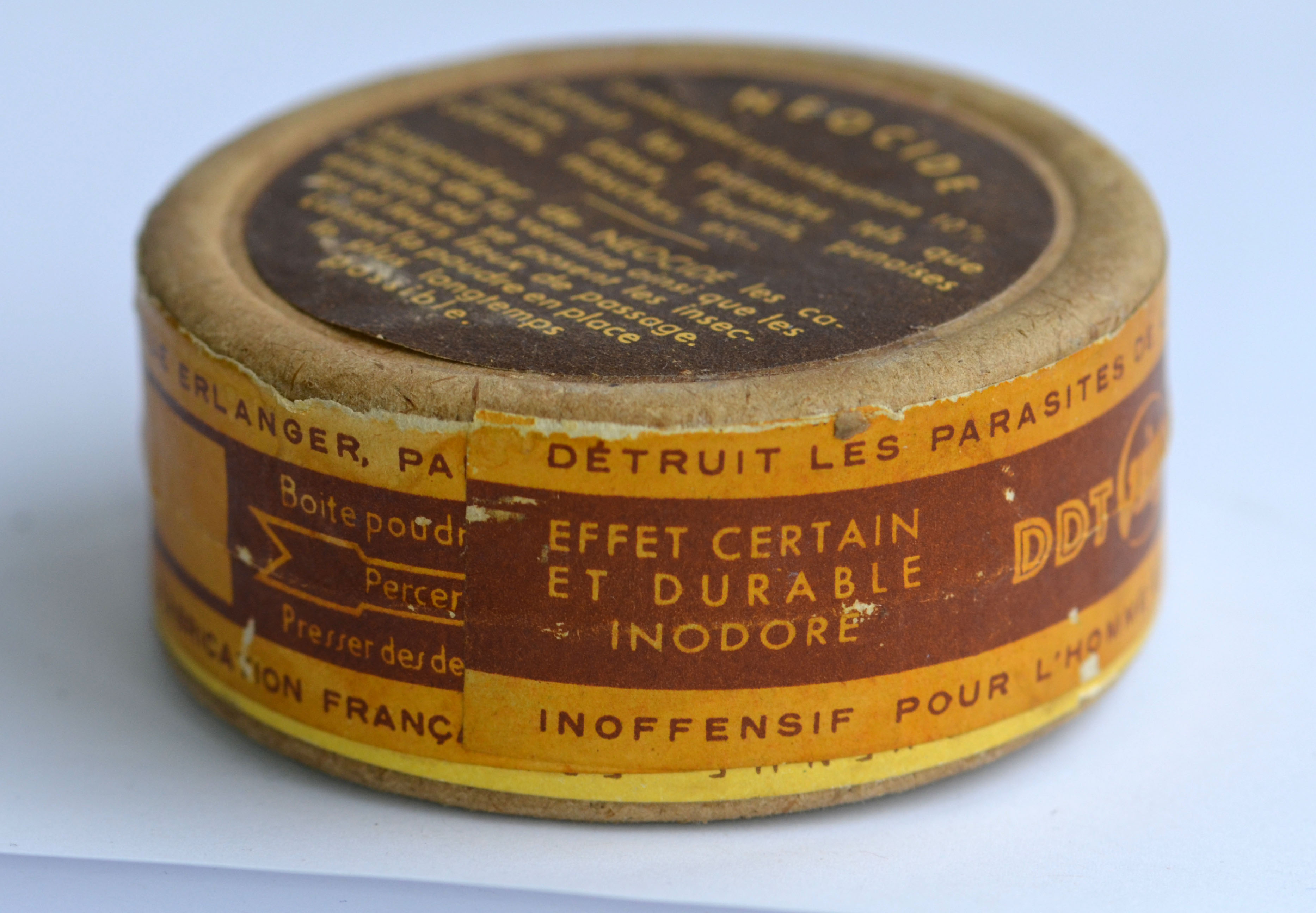 "Néocide. Ciba Geigy DDT, 50 g Dichlordiphenyltrichlorethane 10% "Destroys parasites such as fleas, lice, ants, bedbugs, cockroaches, flies, etc.. Néocide Sprinkle caches of vermin and the places where there are insects and their places of passage. Leave the powder in place as long as possible. " "Destroy the parasites of man and his dwelling" "Death is not instantaneous, it occurs within inévitableement more or less long. " "French manufacturing" ; "harmless to humans and warm-blooded animals" "sure and lasting effect. Odorless. Powder box